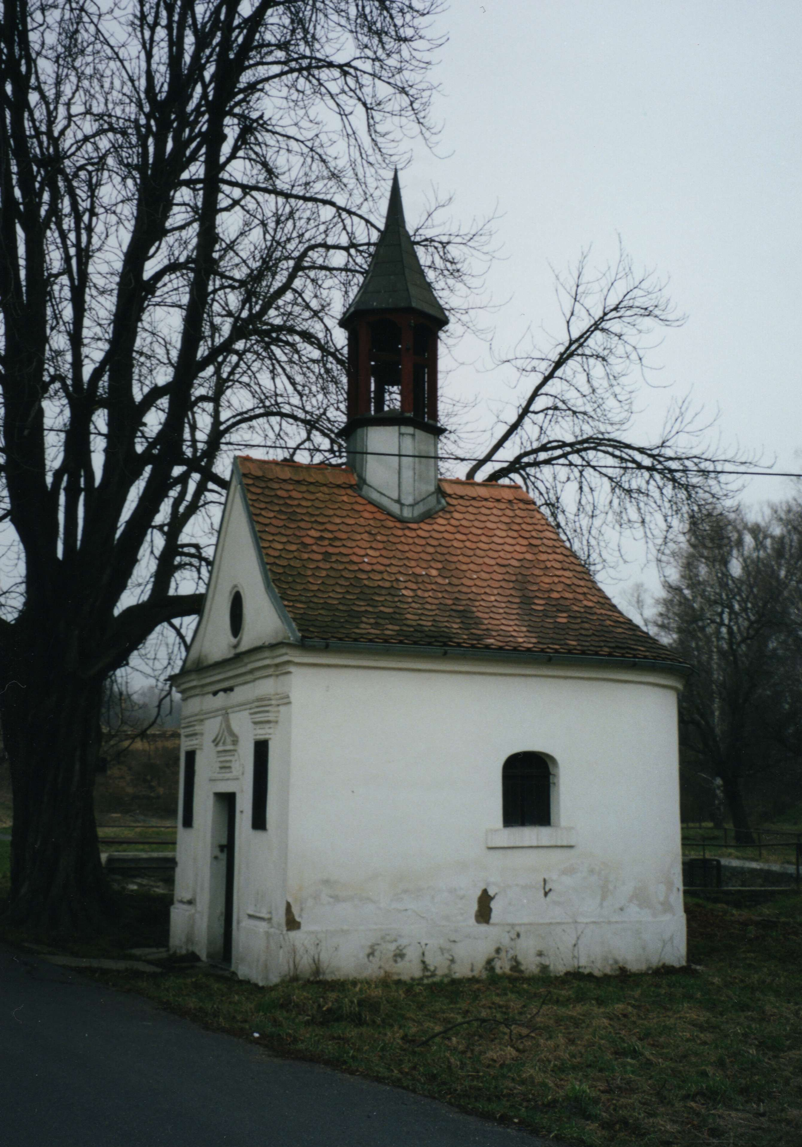 Chapel in Soběchleby from the end of 18th century, Krupka (Grauppen), Teplice District, Ústí nad Labem Region, Czech Republic Česky: Kaple z konce 18. století v Soběchlebích, Krupka, okres Teplice, Ústecký kraj, Česká republika